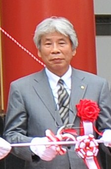 Japanese industrial designer Eiji Mitooka at the tape-cutting ceremony for the newly renovated Fujisan Station on the Fujikyu Line